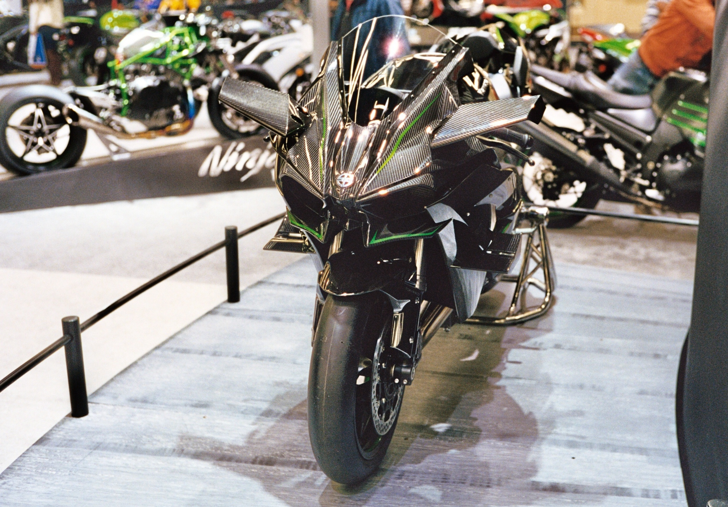 Kawasaki Ninja H2R at the 2014–2015 Seattle International Motorcycle Show in the Washington State Convention Center